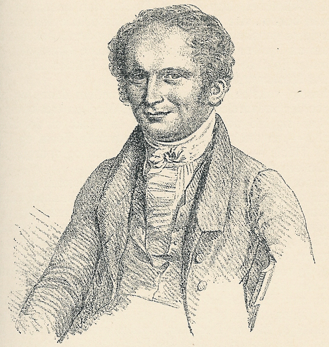 Just Mathias Thiele. Efter en tegning på sten af kobberstikker W. Heuer.